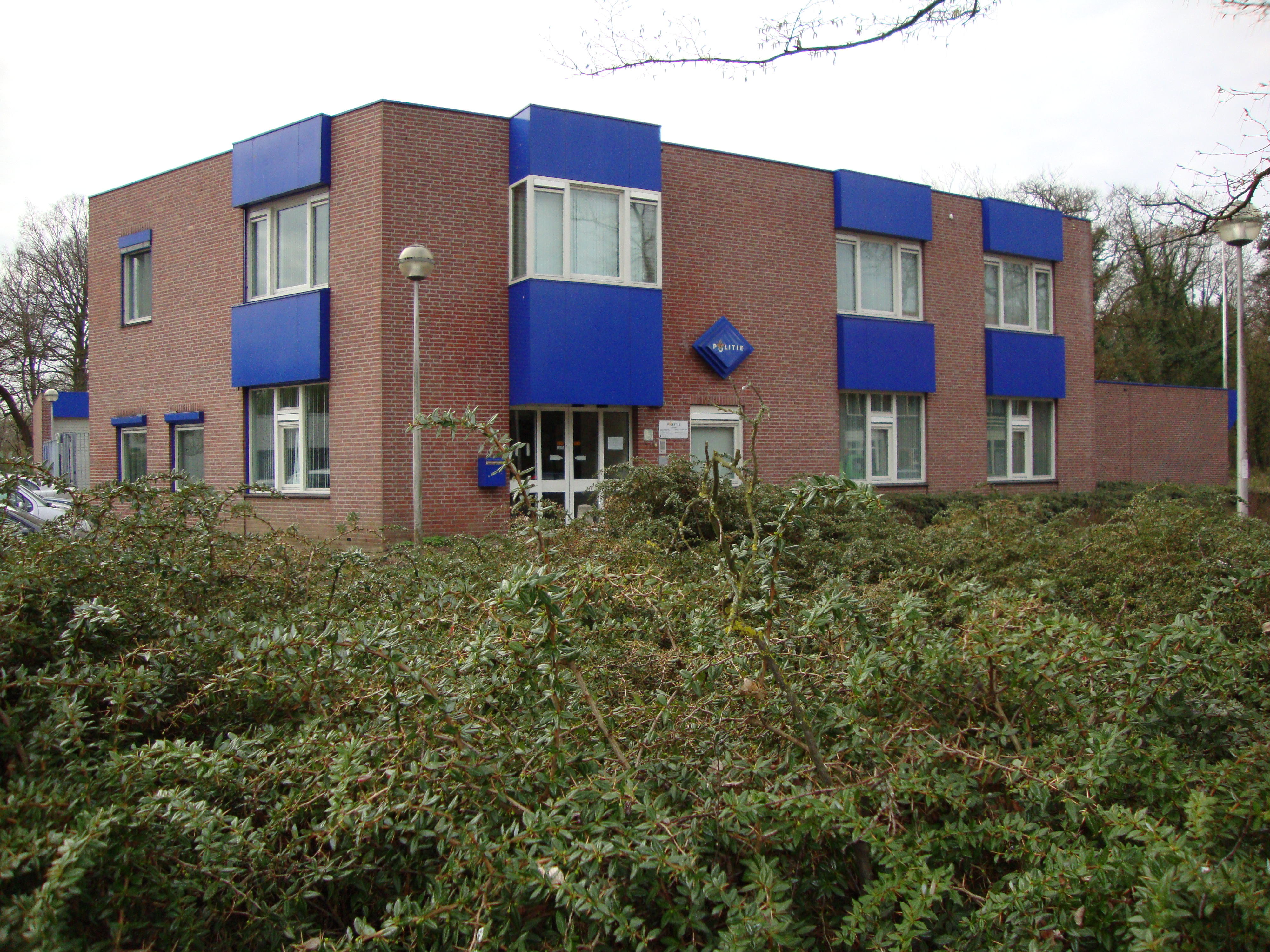 Nijmegen, Politiepost Muntweg